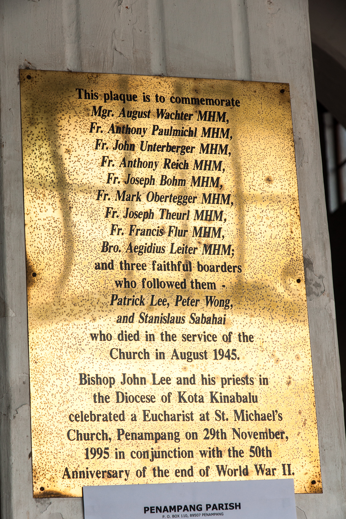 Penampang, Sabah: St. Michael Church Donggongon, Commemorative Plague